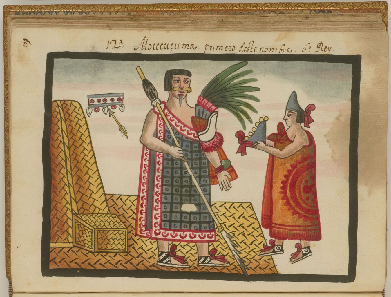 Coronation